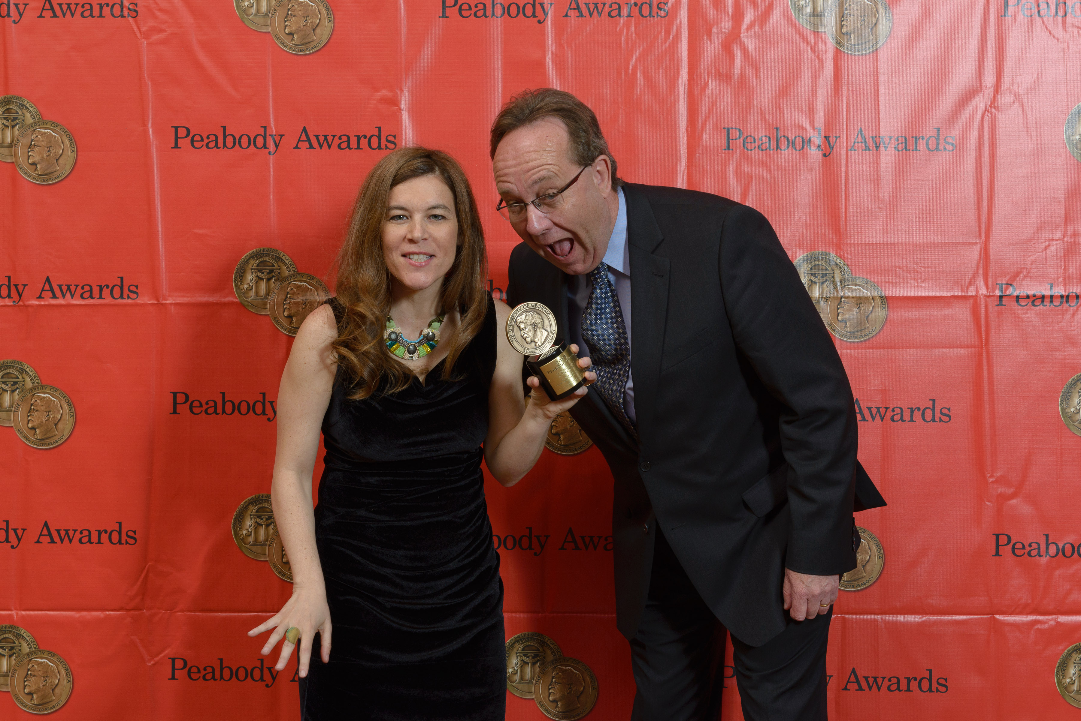 Katerina Cizek and Gerry Flahive at the 73rd Annual Peabody Awards for "A Short History of the Highrise."